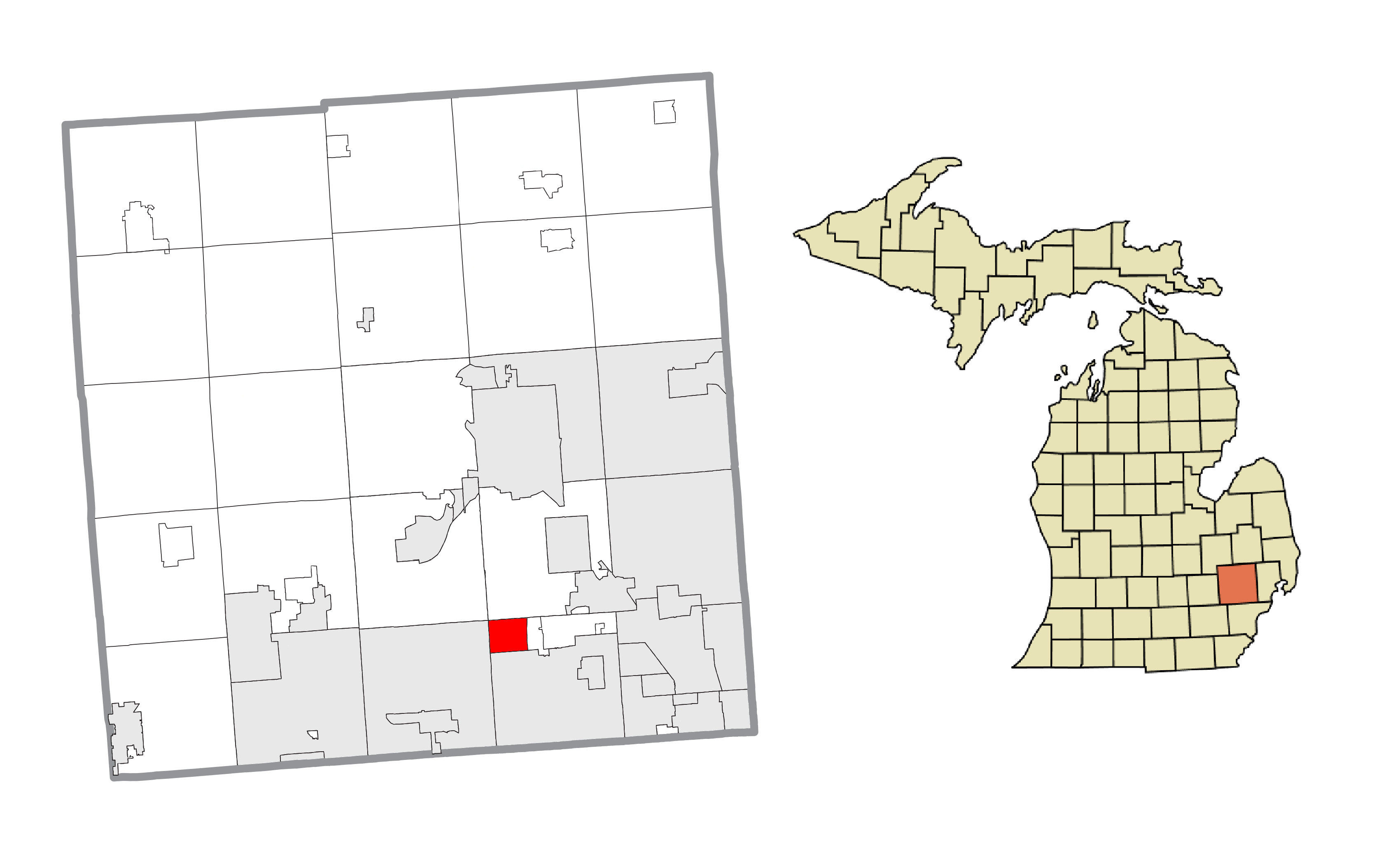 Franklin, MI